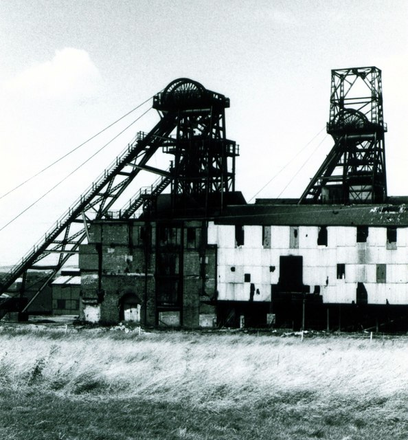 Wheldale Colliery, Castleford: "the sunshine pit" Wheldale Colliery was the first pit to open in Castleford and the last to close, (not including Allerton Bywater just north of the town boundary). It apparently got its nickname "the sunshine pit" because if the sun shone the men went home. I worked there between 1974 to 1978 and had several of these "sunshine breaks" during that time. I can't remember when photo taken so date just a guess.